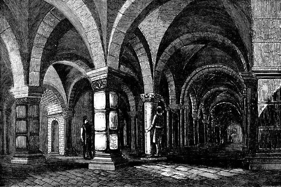 Lund - Cathedral. Columns in the crypt